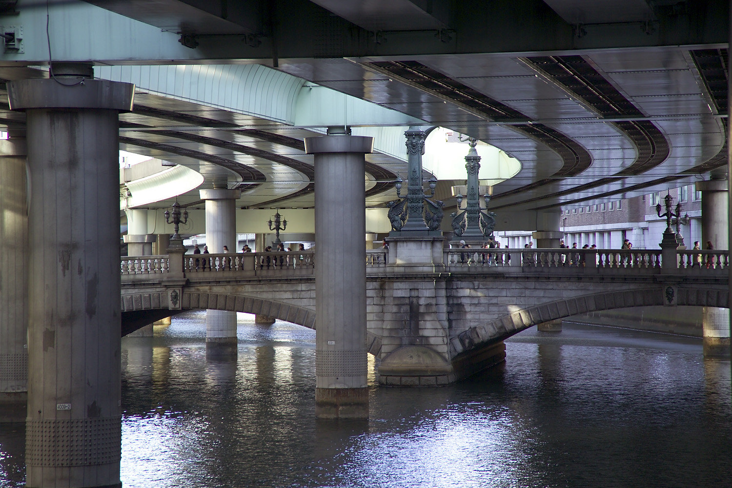 View of Nihonbashi beneath the highways. Chūō, Tokyo, Japan. I took this photo.